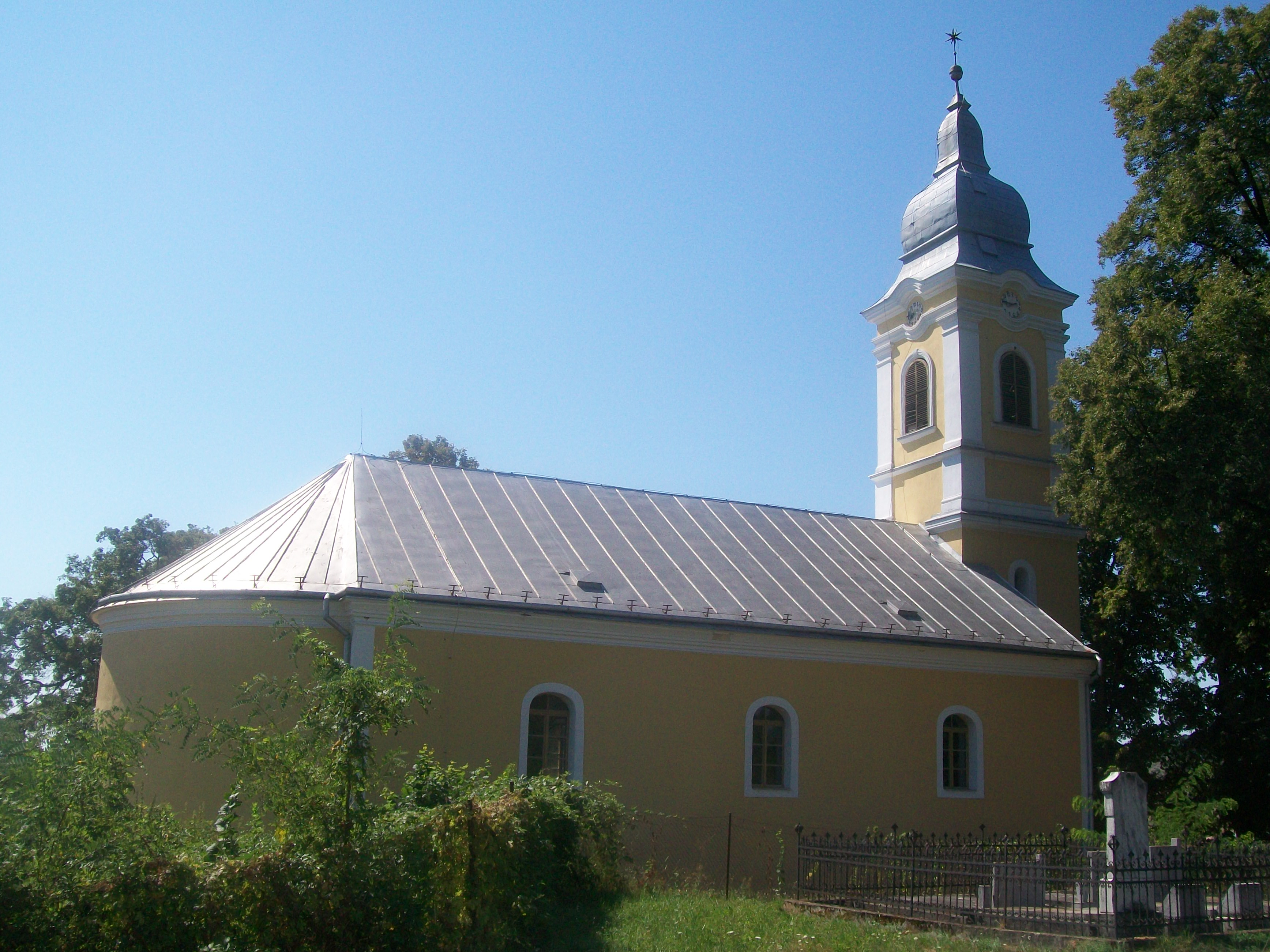 Classical Lutheran Church in 1808, built on the site of a wooden 1610Slovenčina: Kostol evanjelický klasicistický z roku 1808, postavený na mieste dreveného z roku 1610